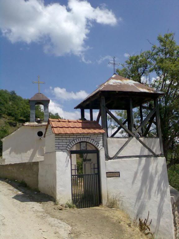 Village of Bitovo, Poreche region, Republic Macedonia